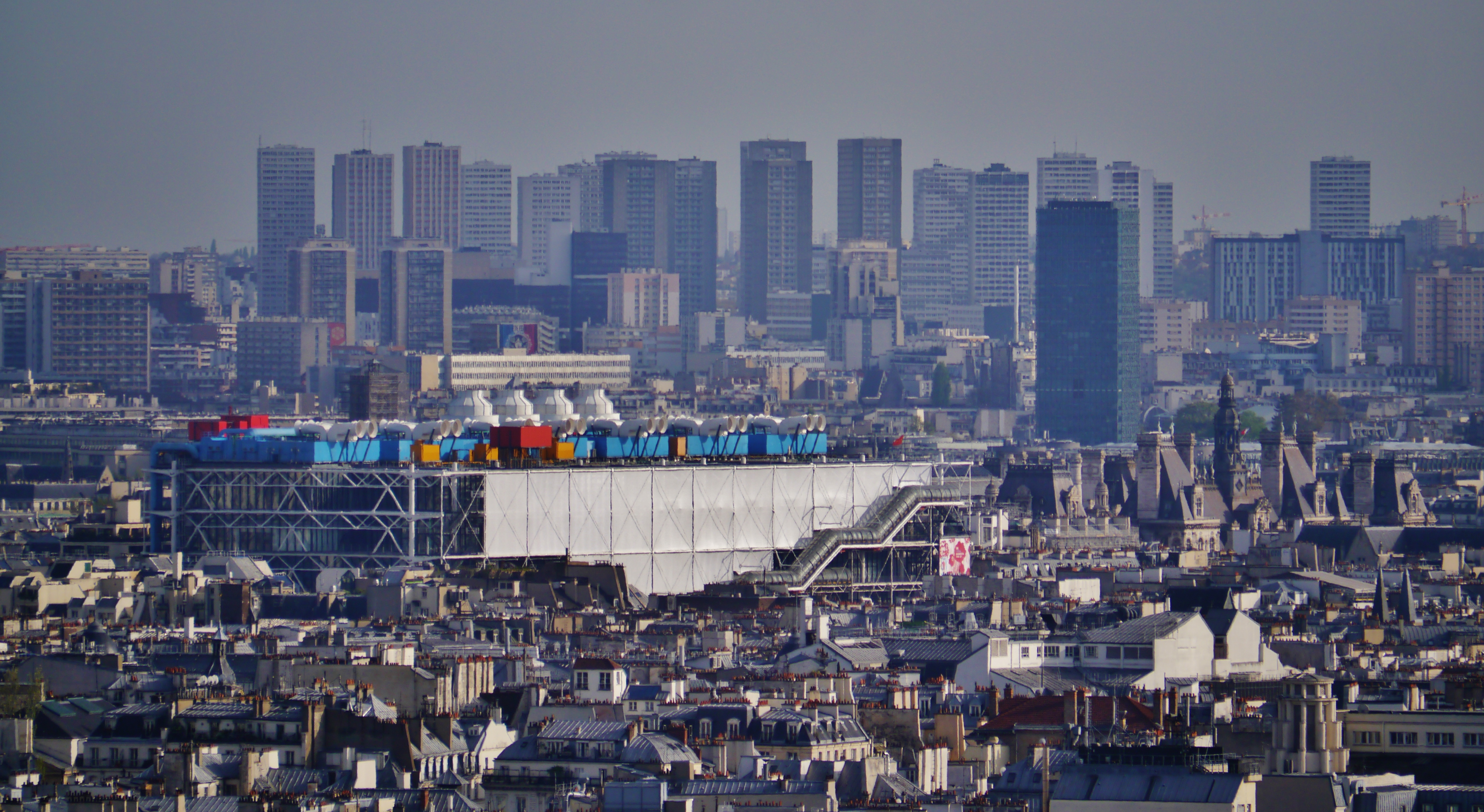 View from the Montmartre to the Georges-Pompidou Centre, Paris, Region of Île-de-France, France